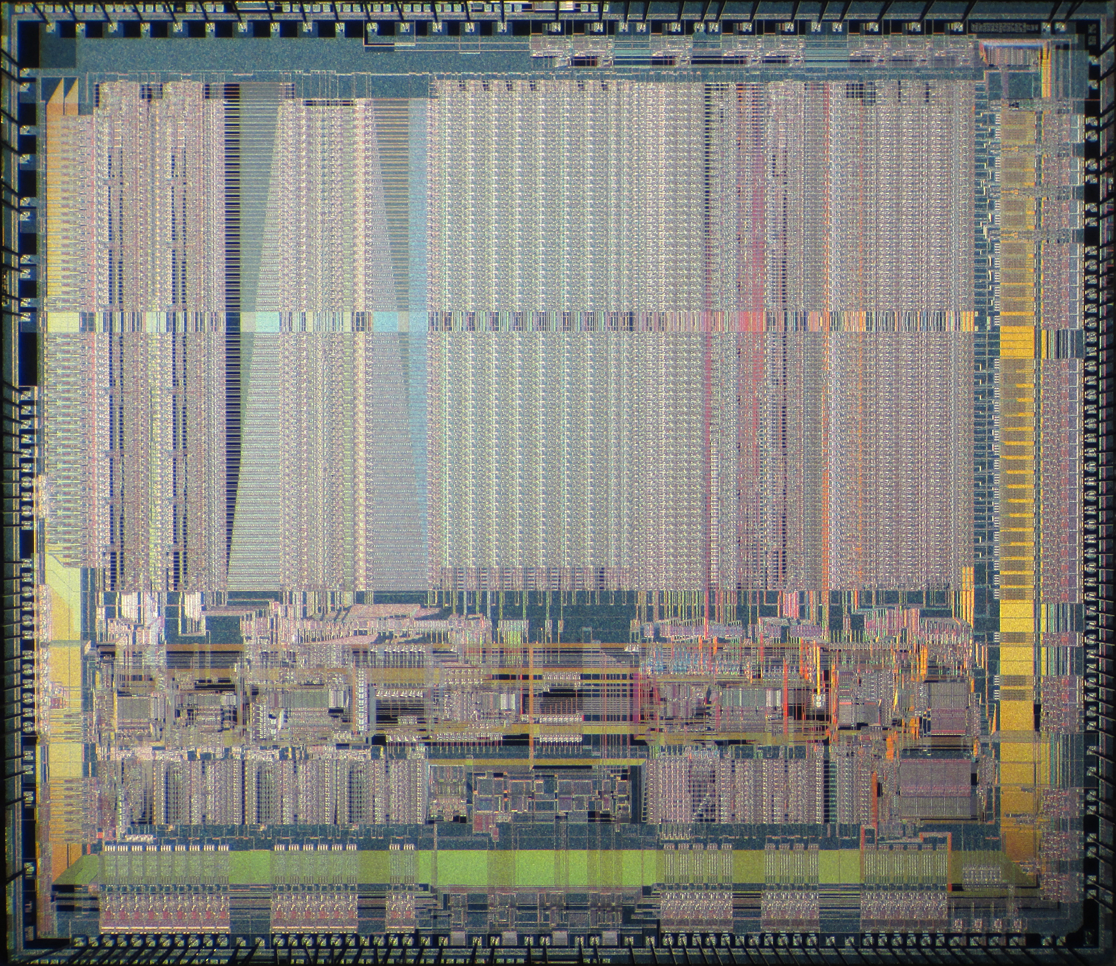 Die shot of DEC Rigel floating point coprocessor with chip number DC523E and part number 21-25090-02.